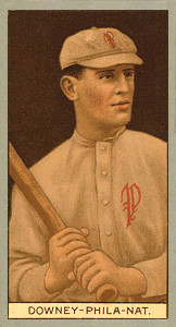 Tom Downey baseball card